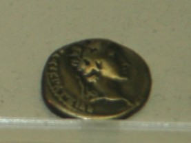 Silver denarius, Roma (empire), Augustus. National Museum of History of Azerbaijan, Baku.